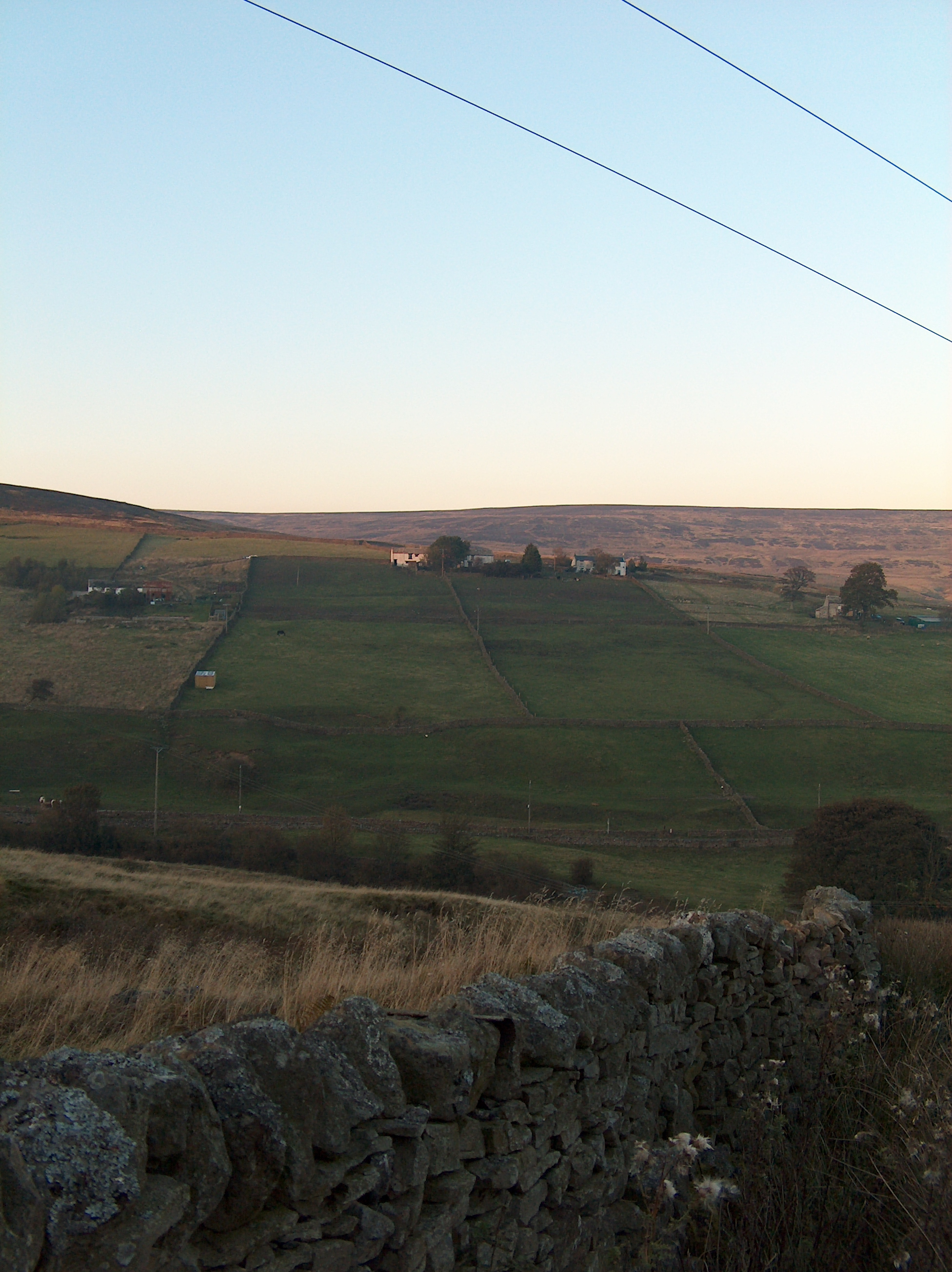 Country Side Scene Rockhope